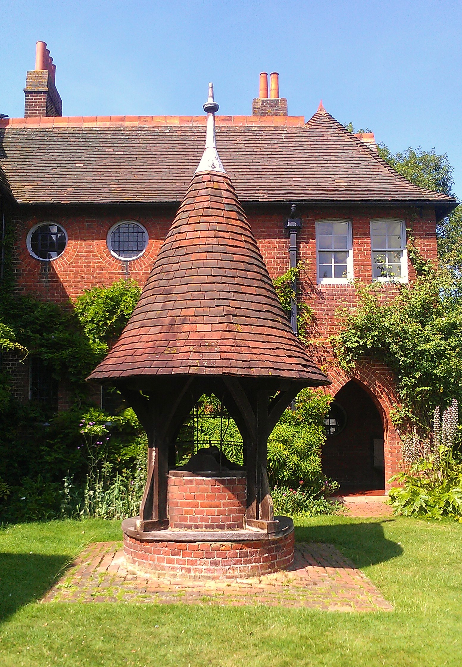 The well in the grounds of the Red House at Upton, Bexleyheath, Greater London.